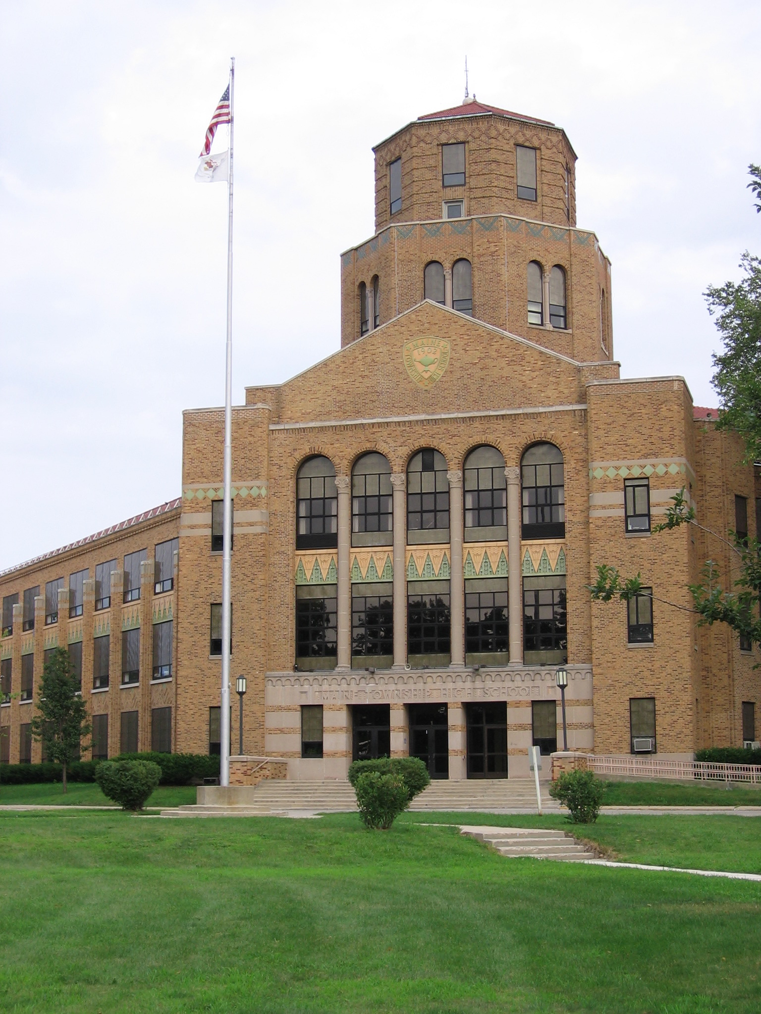 This is a photograph of the main entrance of Maine East High School, a public secondary school in Park Ridge, Illinois